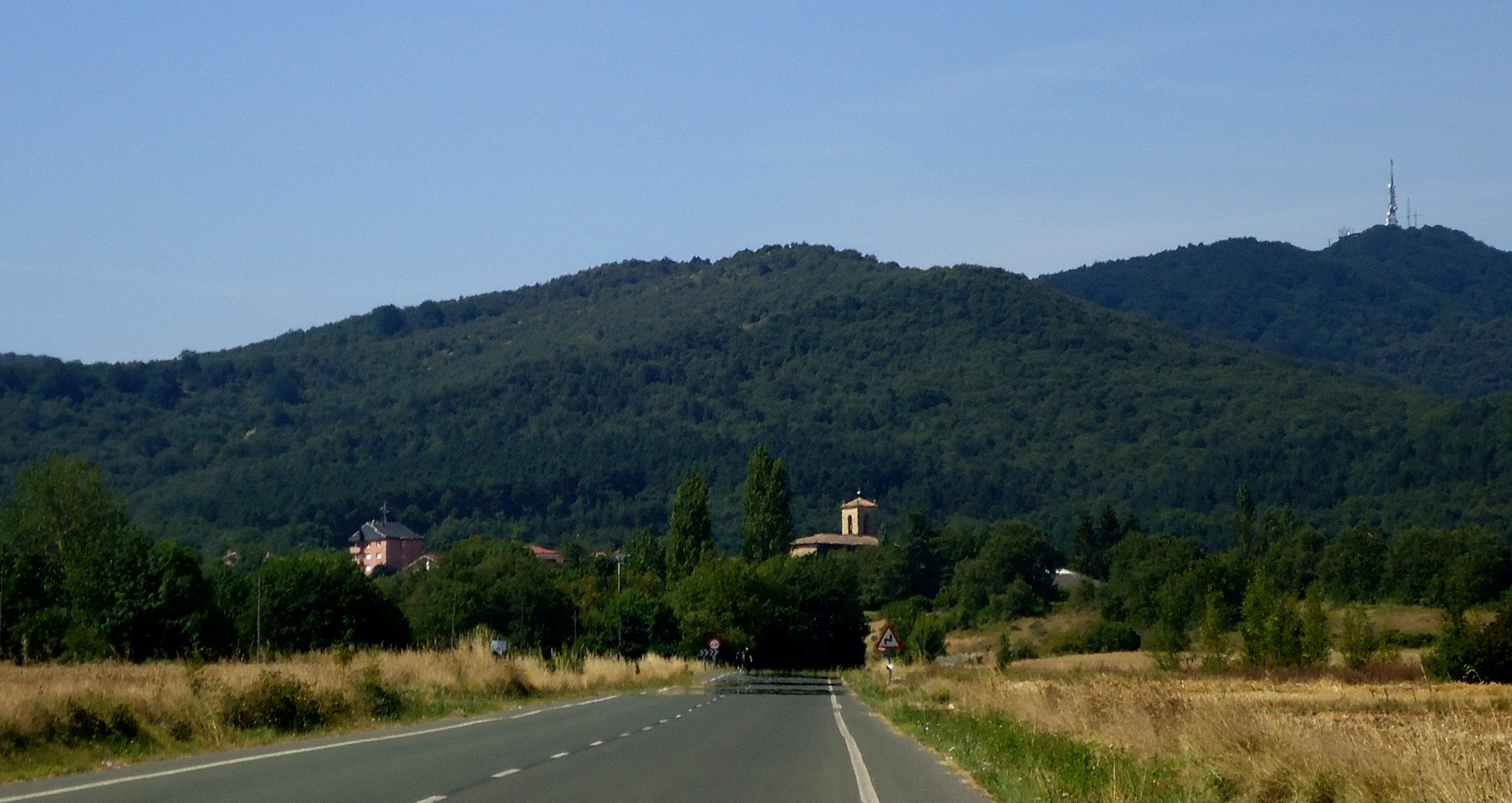 Berroztegieta (Vitoria-Gasteiz, Araba/Álava, Basque Country)